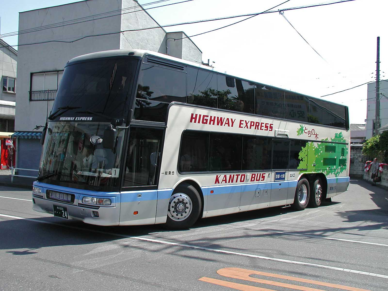 Fleet of Kanto Jidosha, the 1st car of double-decker since 1999 for overnight express "Tochinoki" between Utsunomiya and Osaka. Model: Mitsubishi Fuso Aero King KC-MU612TA License plate: TGT200 KA--24 Place: Kanto Jidosha Seibi co., Naka-Ichinosawa, Utsunomiya City, Tochigi Japan. Displayed at"Kanto Jidosha Friendly Festa"